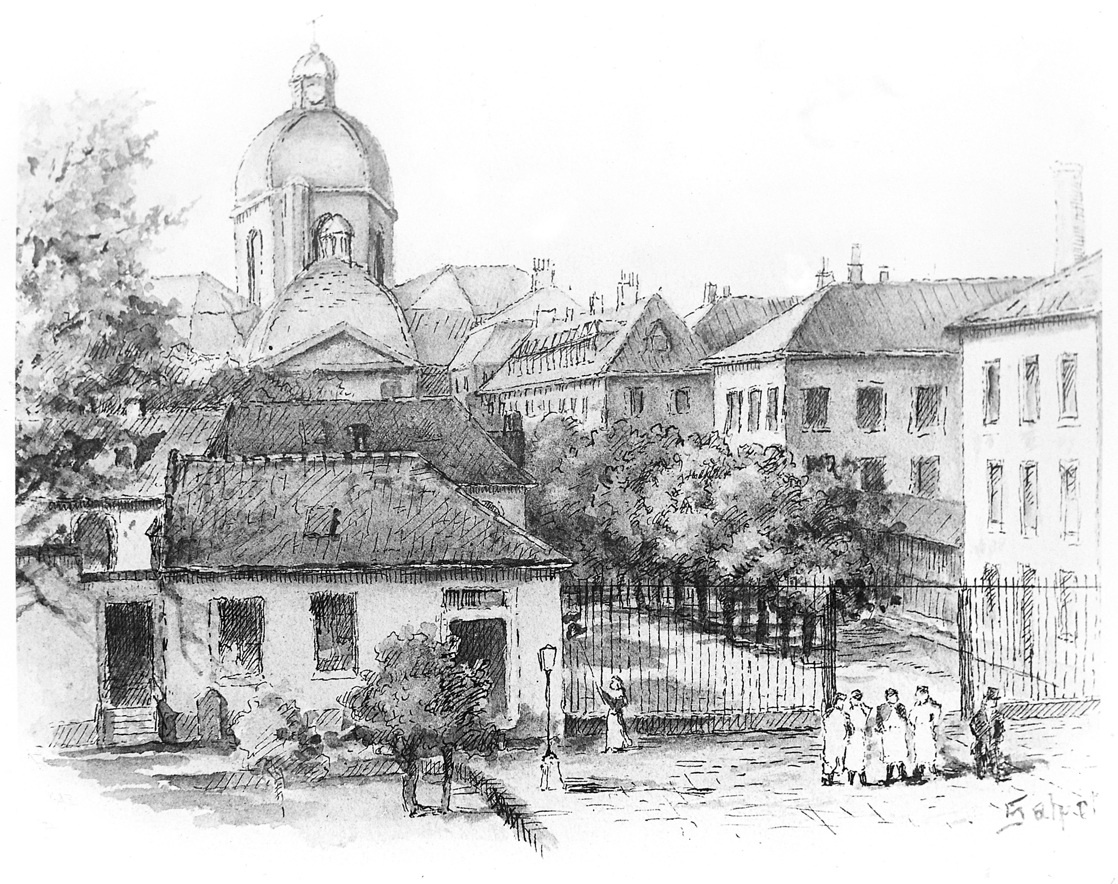 Hospital de la Salpetriere, Paris. Wellcome Images Keywords: Institutions